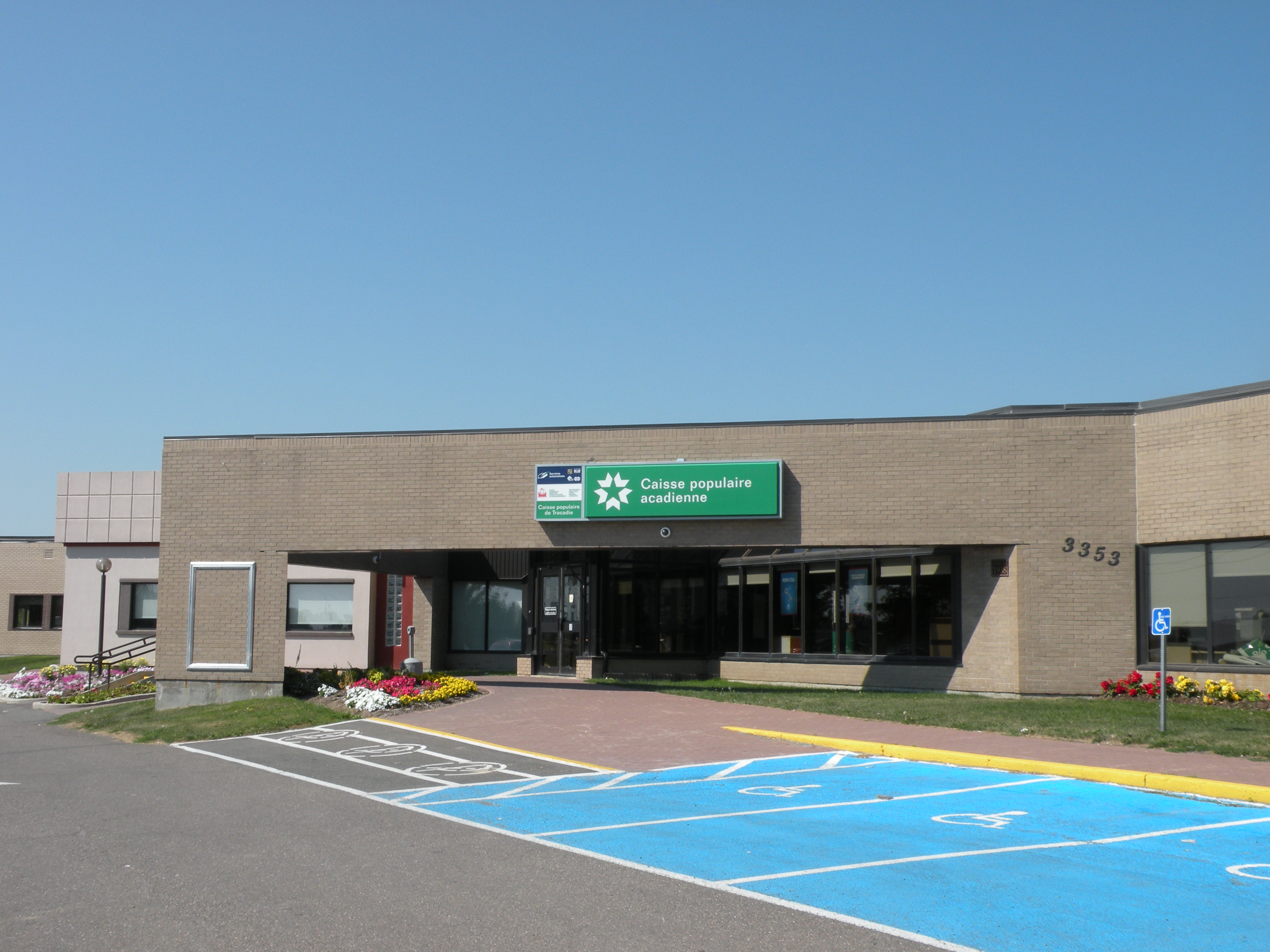 Credit union of Tracadie, New Brunswick, Canada.